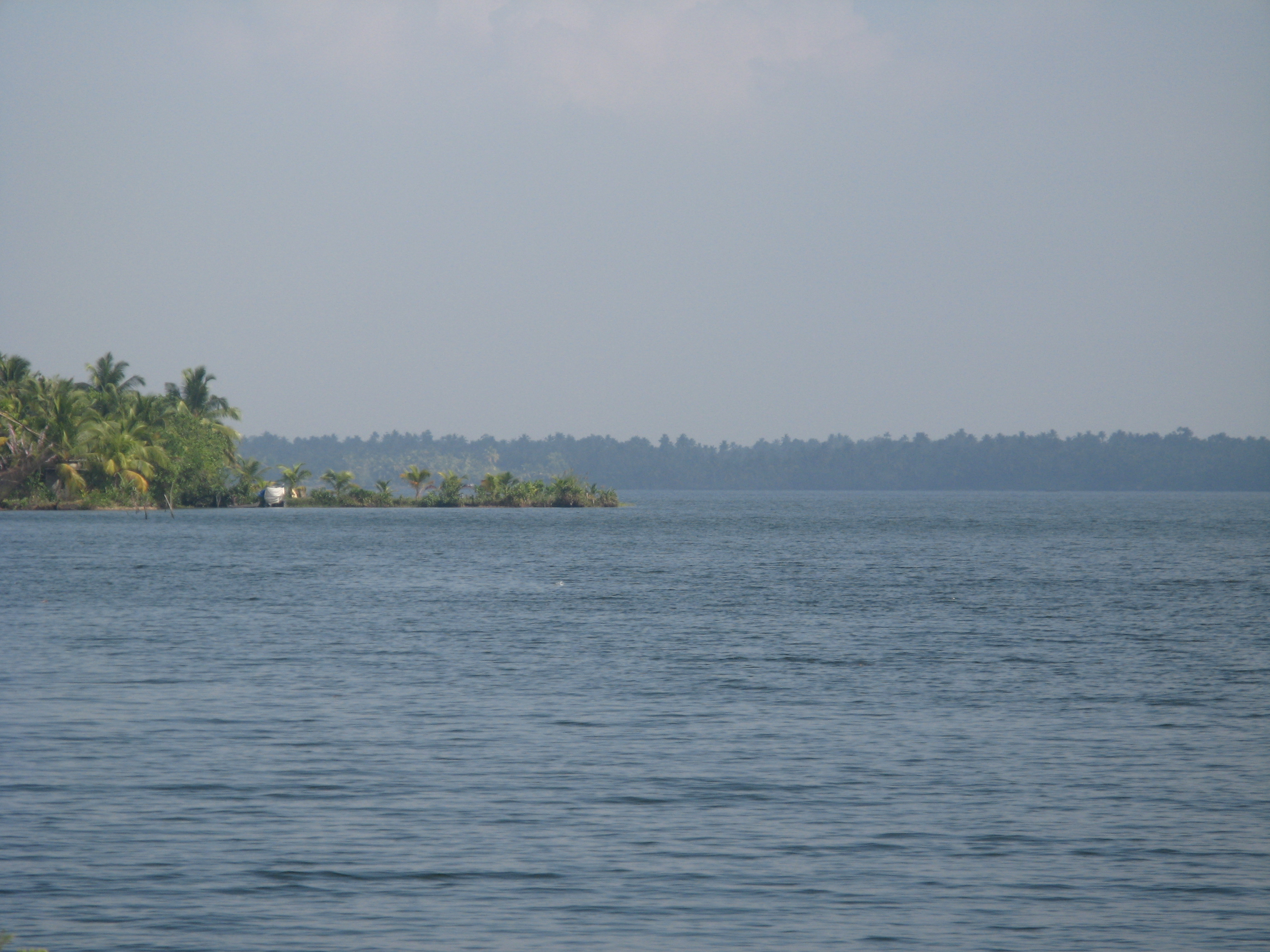 A view of the back waters of Alapuzha, Kerala, India.